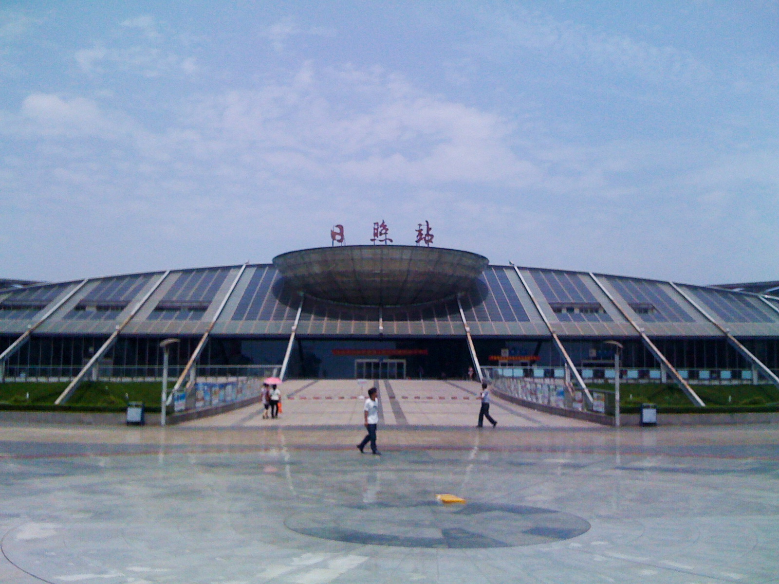 Rizhao Railway station ，Shandong province，PRCHINA